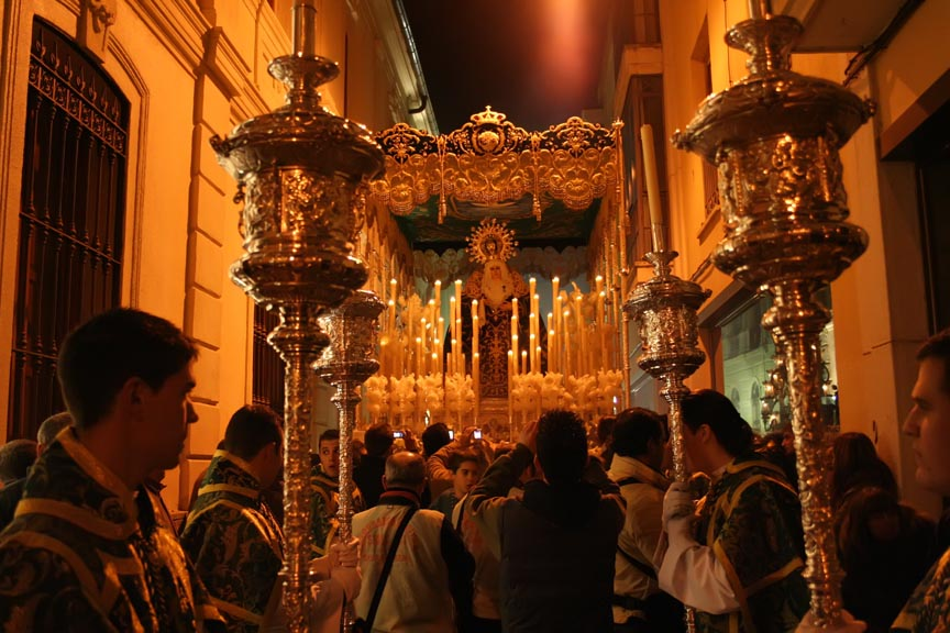 Esperanza in Pasa de la Merced